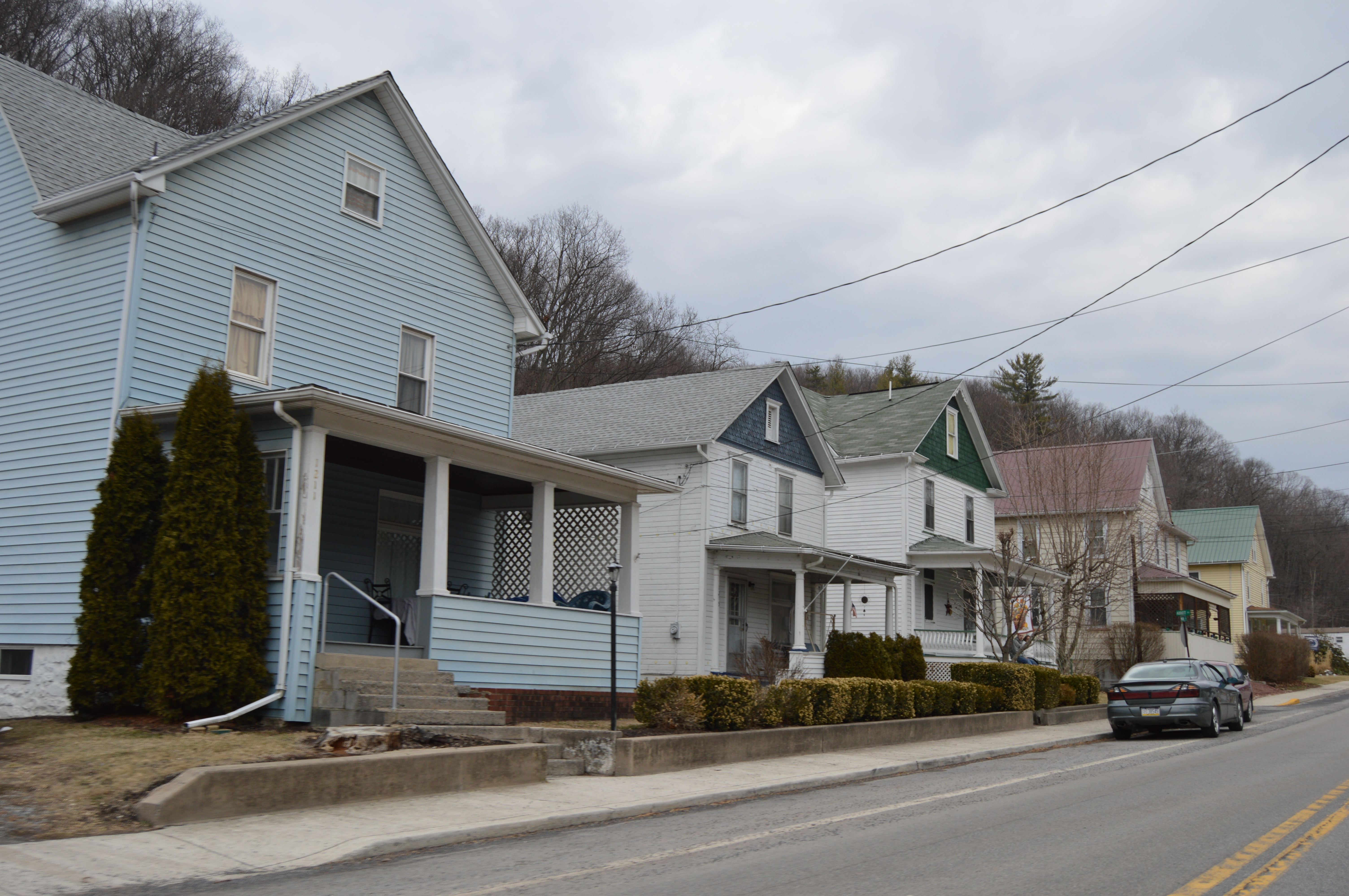 Houses on the northern side of Main Street west of the Abbott Street intersection in Coaldale, Pennsylvania, United States.